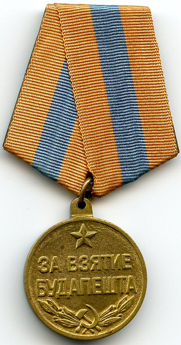 Soviet WW2 campaign medal "For the Capture of Budapest" (1945)